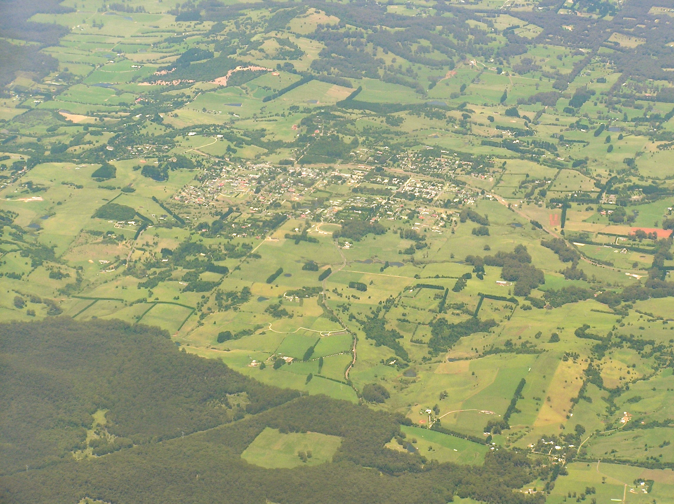 Areial photo of Robertson, New South Wales